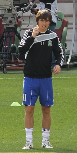 Kirill Kovalchuk